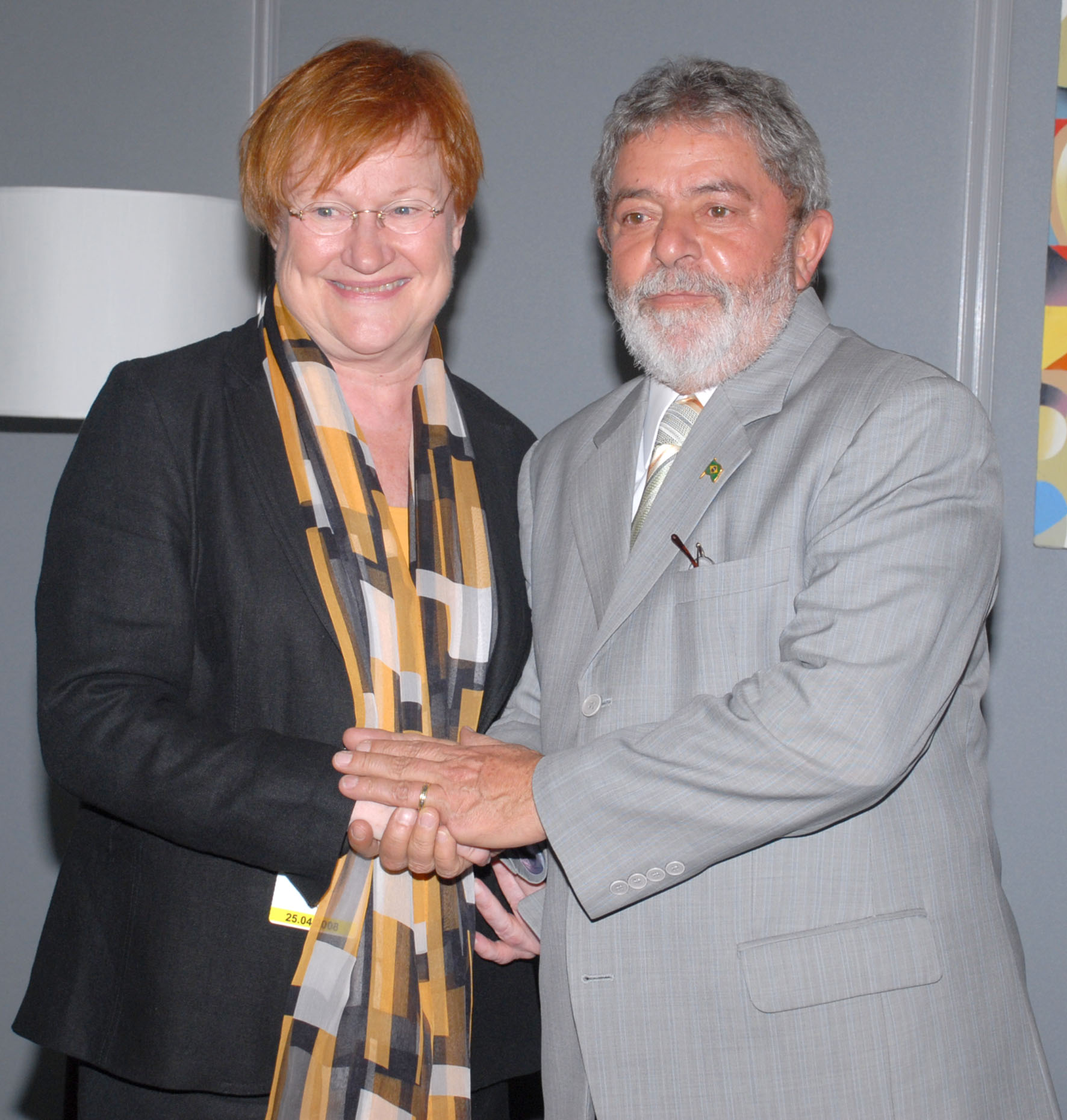 Tarja Halonen, President of the Republic of Finland, and Luiz Inácio Lula da Silva, President of Brazil